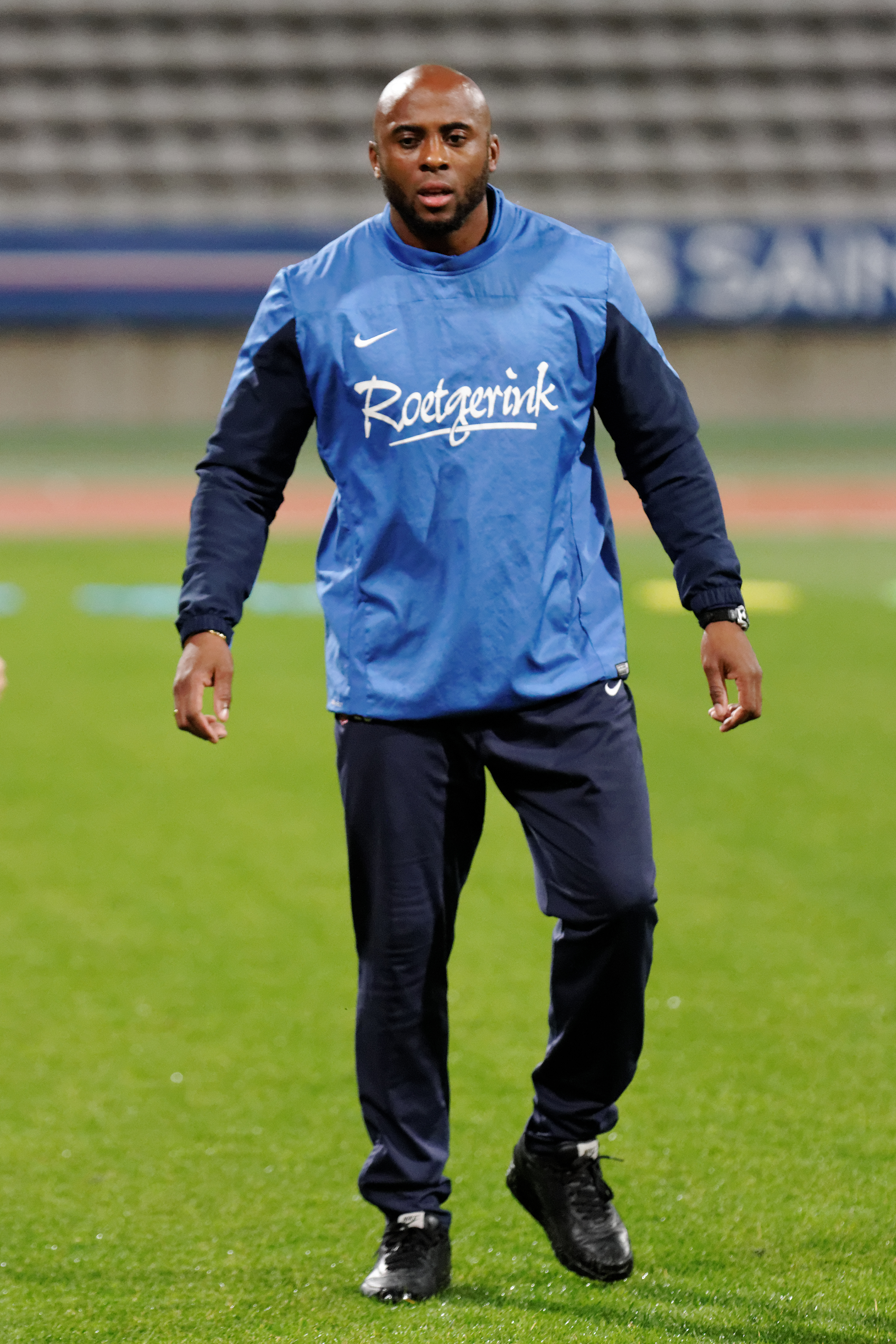 UEFA Women's Champions League, PSG - Twente, 15 October 2014